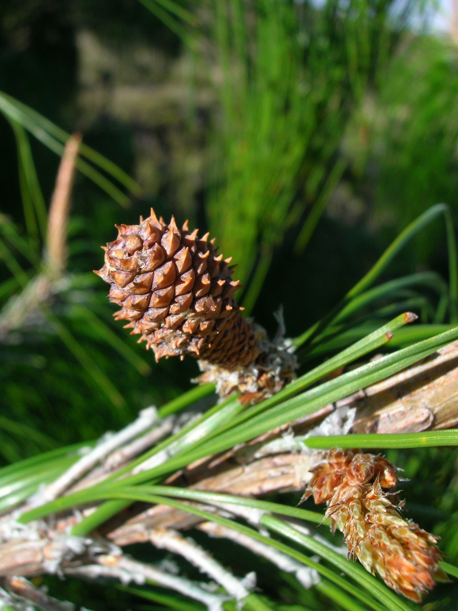 Pinus patula (cone). Location: Maui, Haleakala Ranch